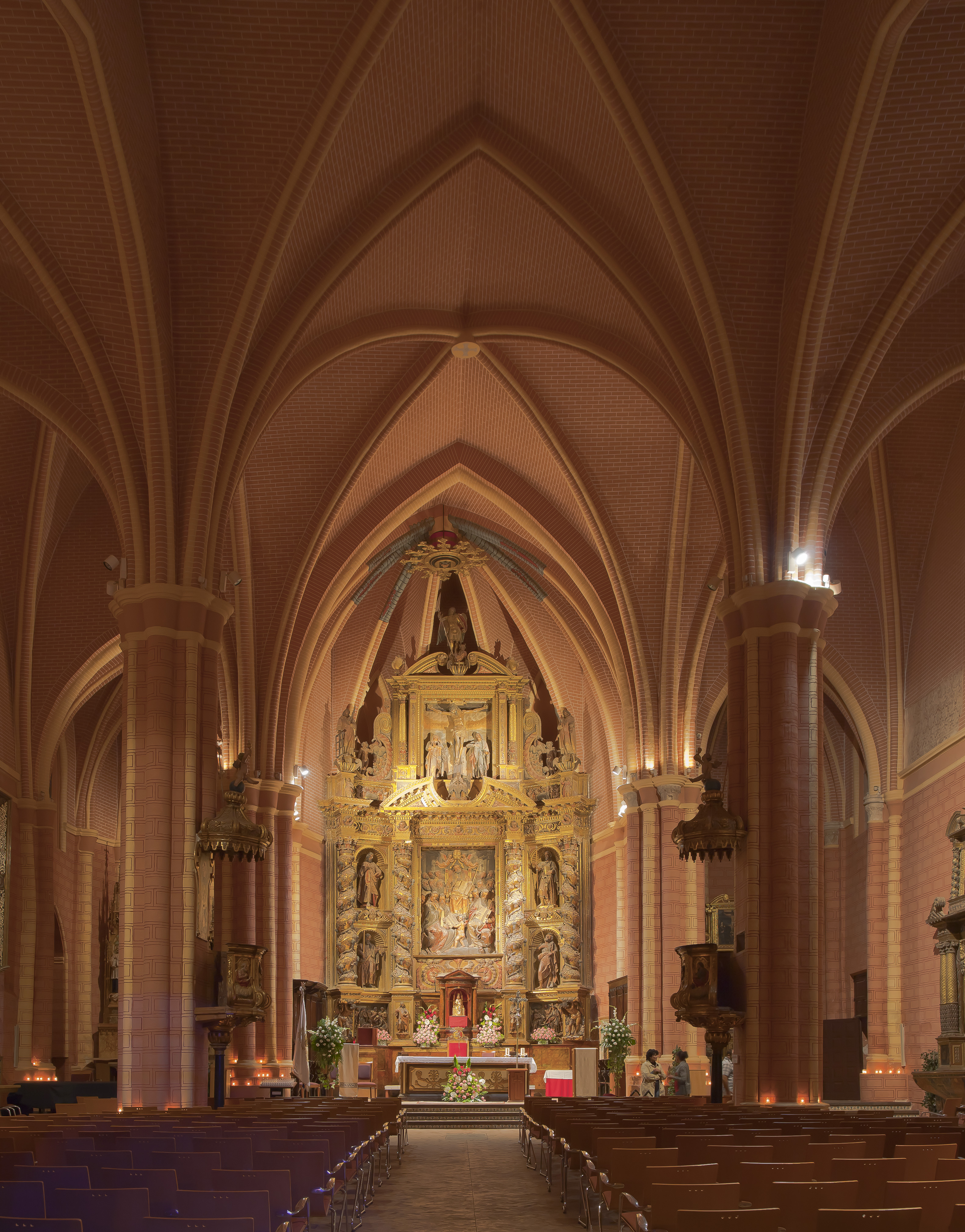 Church of San Pedro Los Francos, Calatayud, Spain